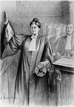 Jeanne Chauvin, the second woman in France to be sworn in as a lawyer, from L'Illustration, December 1900 (Litho)